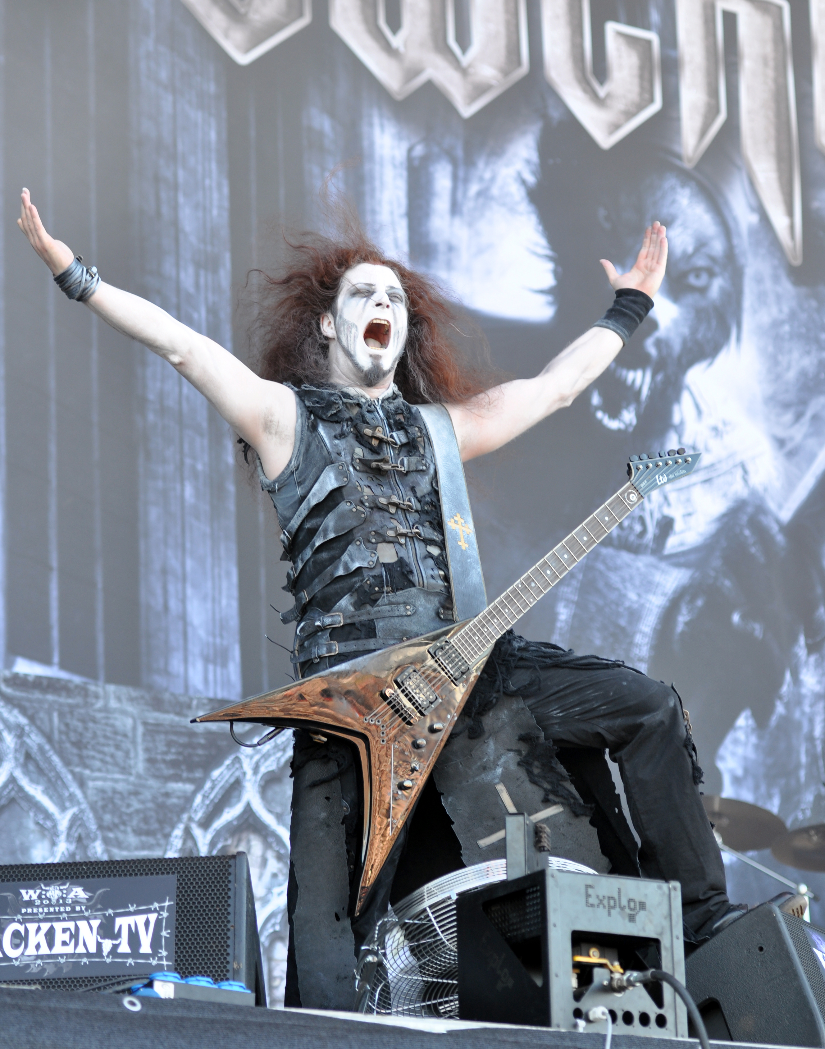 Powerwolf at Wacken Open Air 2013